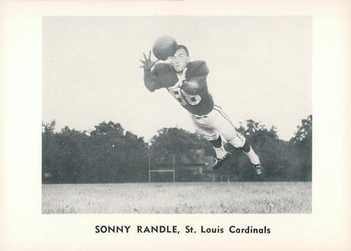 A promotional image of St. Louis Cardinals American football player Sonny Randle.